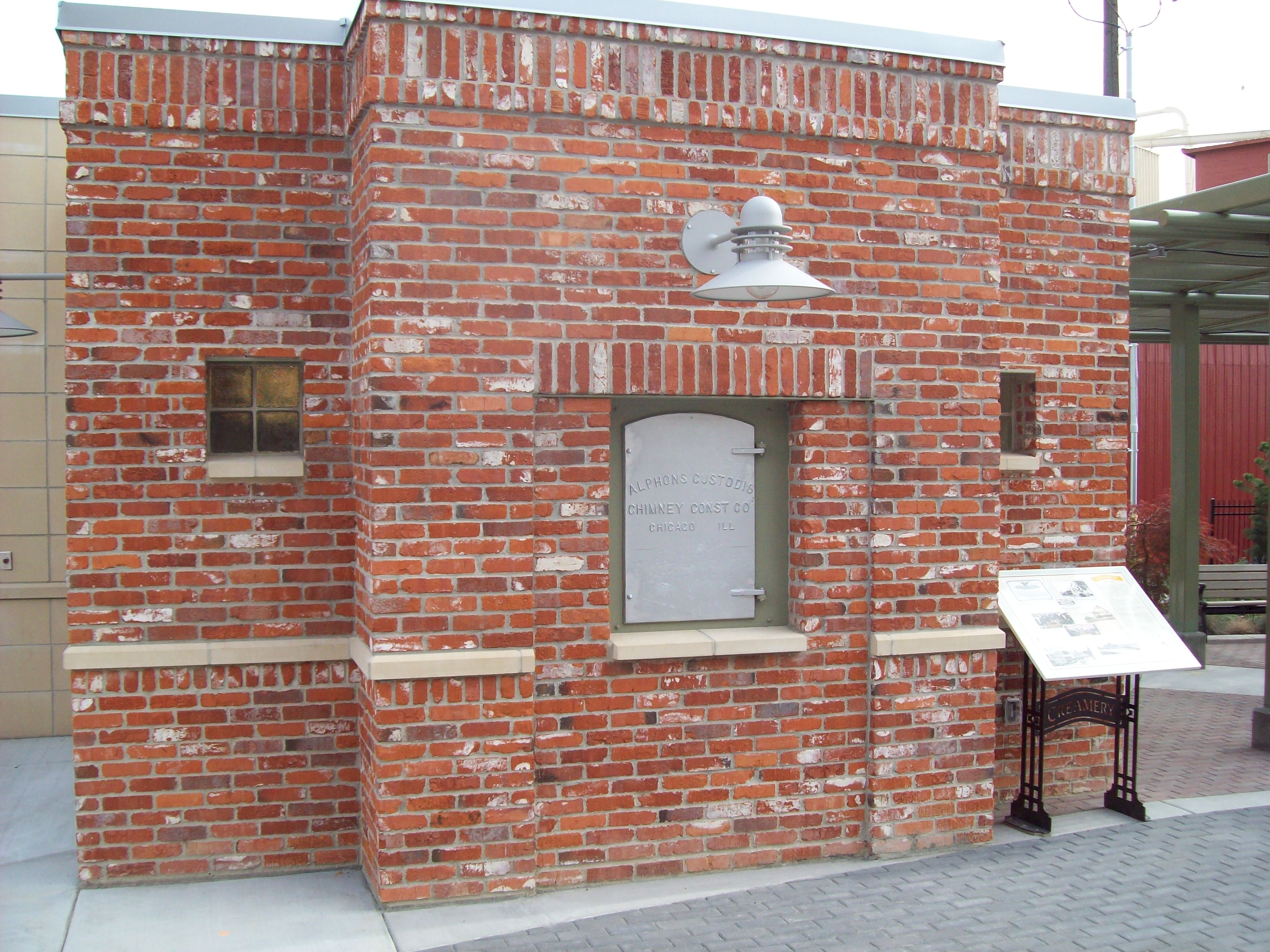 Part of the Meridian Heritage Pavilion in the Meridian City Hall Plaza. Bricks from the original creamery were used to construct the building, and the Challenge Butter smokestack door, which is spotlighted, now covers a time capsule that will be opened in 2033.